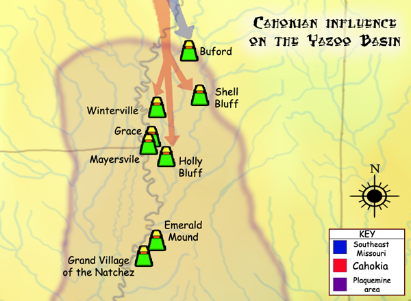 A graphic depicting the Cahokian influence in the Yazoo Basin starting in 1150 to 1250 CE during the Late Coles Creek period and continuing into the Plaquemine period.[1]